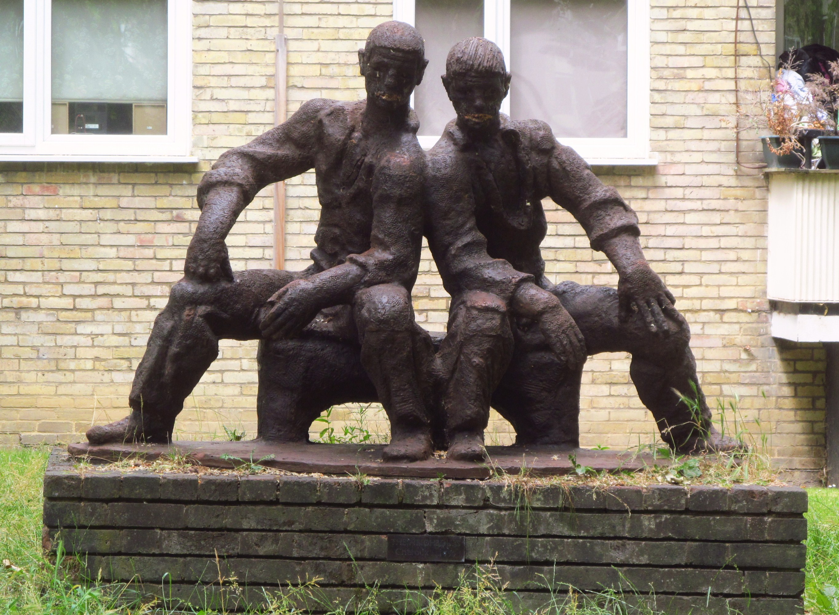 The Neighbours (1957) by Siegfried Charoux, Highbury Quadrant Estate, Islington, London